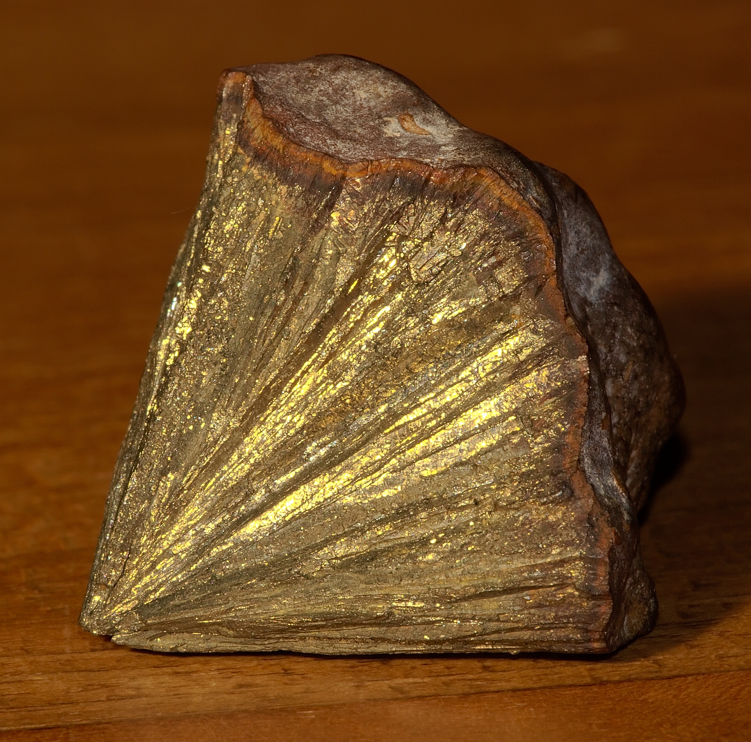 Marcasite